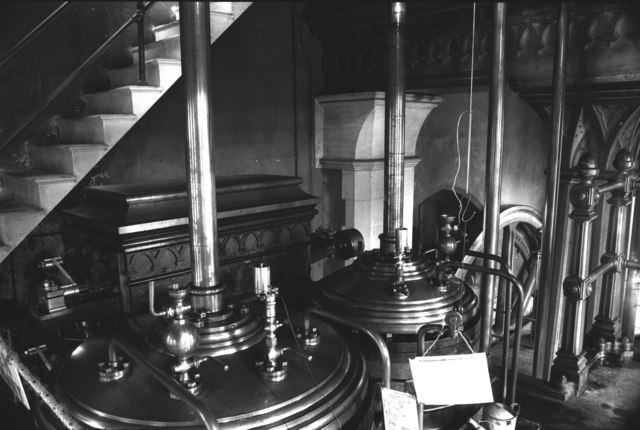 Beam pumping engine, Tees Cottage. Woolf compound engine. Note the indicator on the low pressure cylinder and the string to drive it from the motion above. The indicator produces a graphic illustration of the action of the steam, allows diagnosis of faults and allows one to calculate the indicated horsepower (IHP).